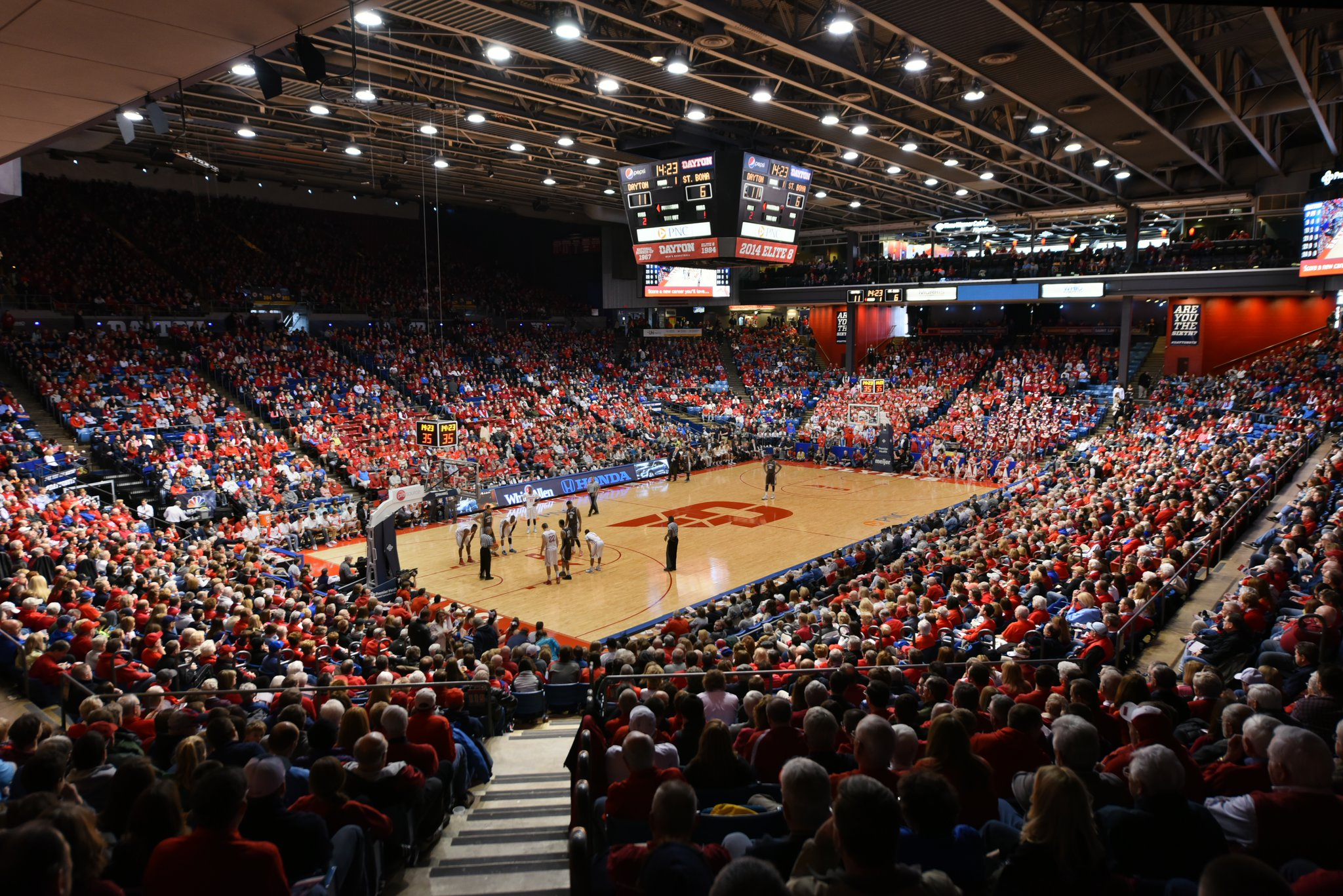 UD Arena